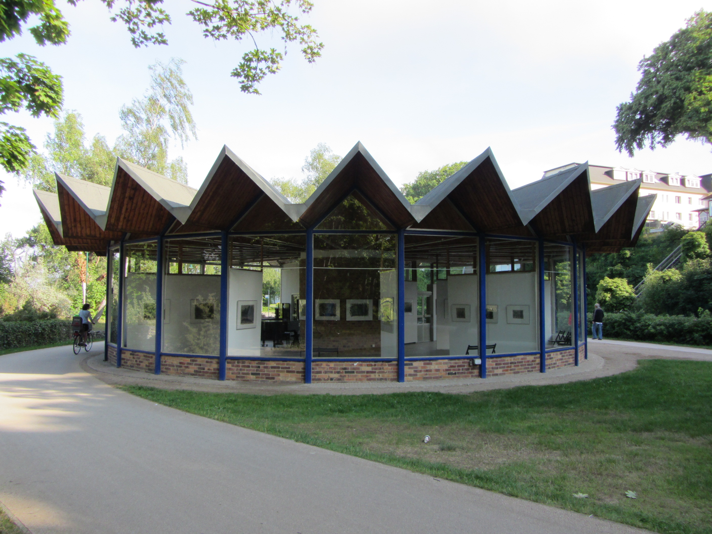 Kunstpavillon in Heringsdorf, district Vorpommern-Greifswald, Mecklenburg-Vorpommern, Germany